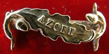 Azoff bar from an example in my collection